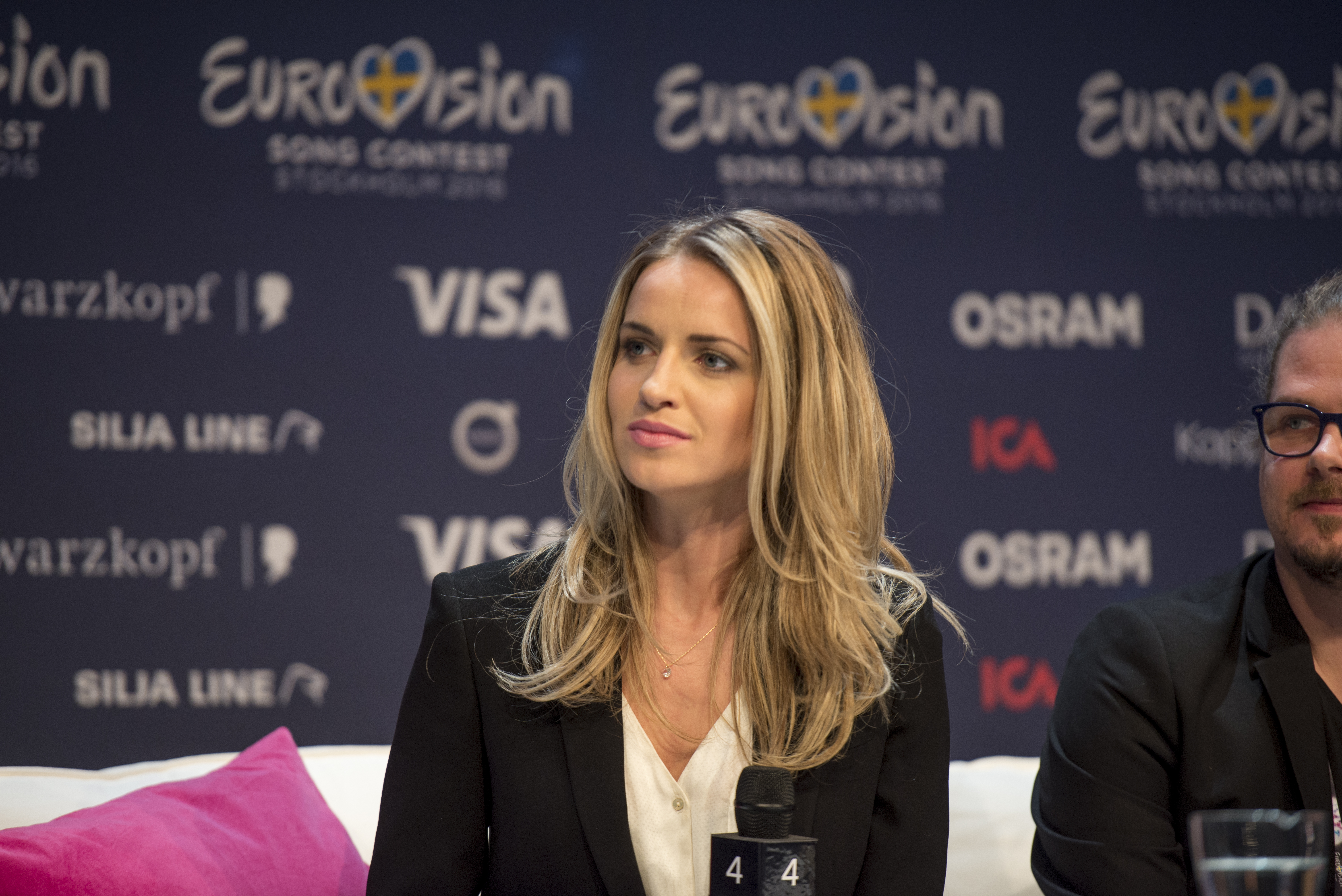 Gabriela Gunčíková at a Meet & Greet during the Eurovision Song Contest 2016 in Stockholm. (Help translate this text)